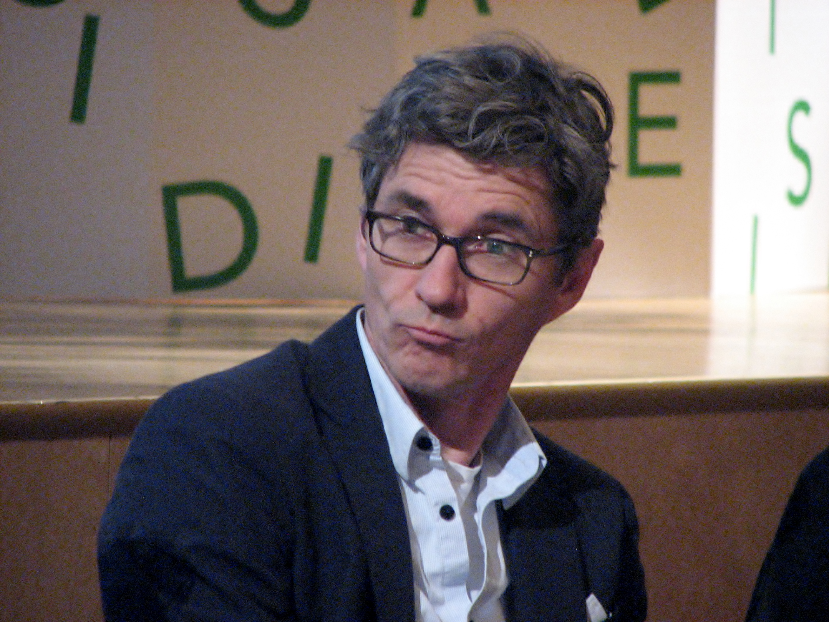 Swedish author Johan Unenge at the Tallinn Book Fair.